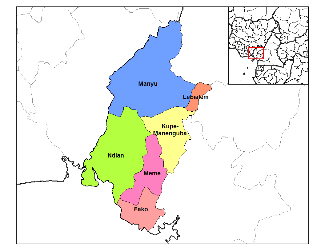 Map of the divisions of Southwest province in Cameroon. Created by Rarelibra 19:57, 1 September 2006 (UTC) for public domain use, using MapInfo Professional v8.5 and various mapping resources.